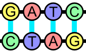 Palindromatic sequence, recognized by DpnI